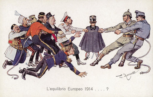 european equilibrium at 1914